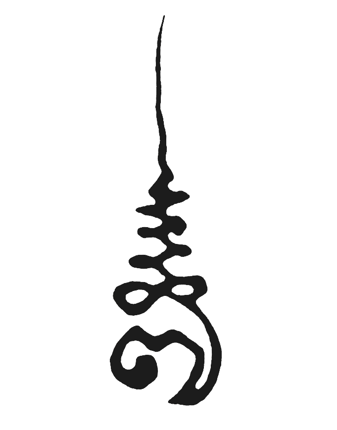 Traditional Thai yantra used by the Kammatthana tradition